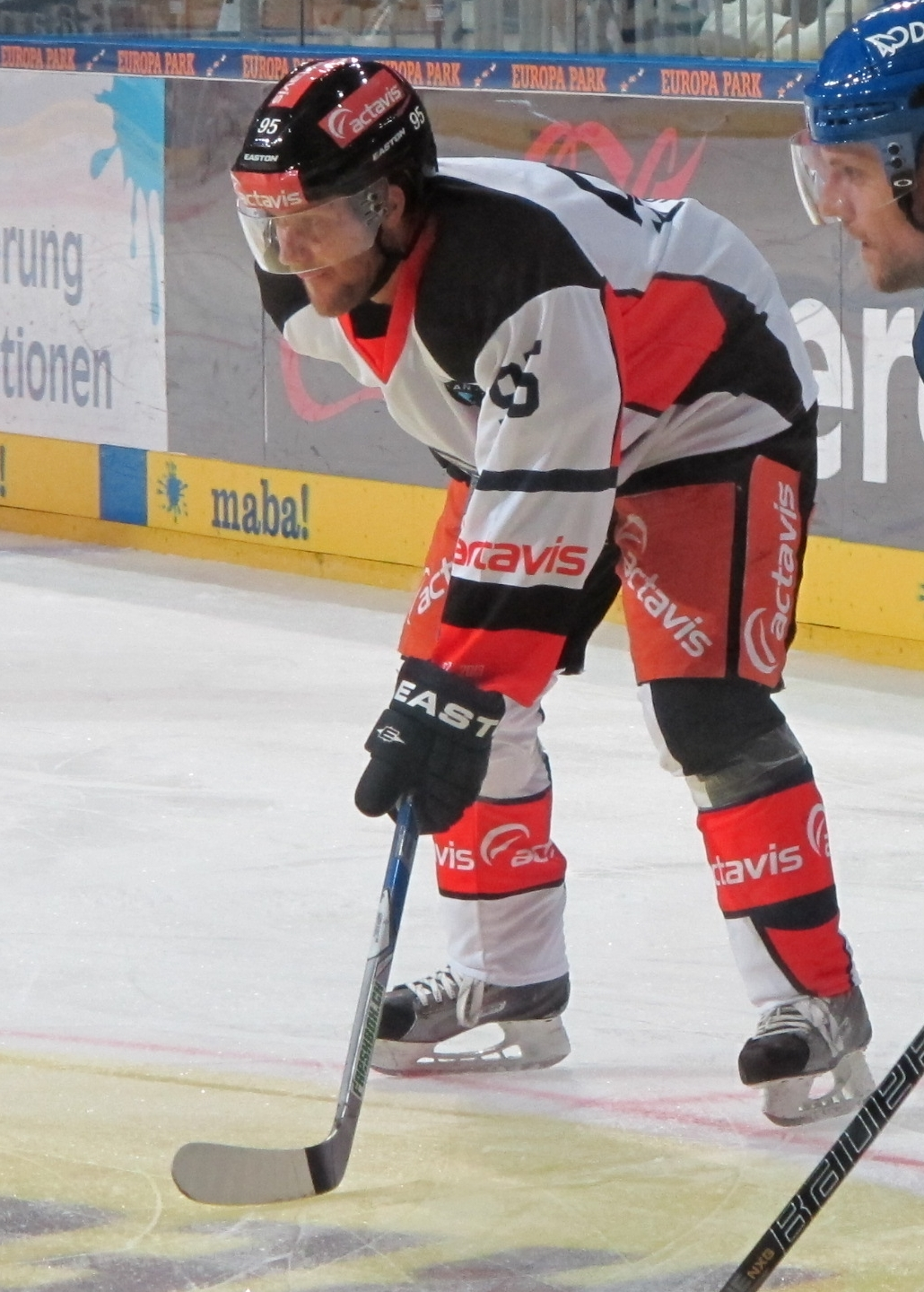 Fabian Lüthi, EV Zug, Champions Hockey League 2012/13